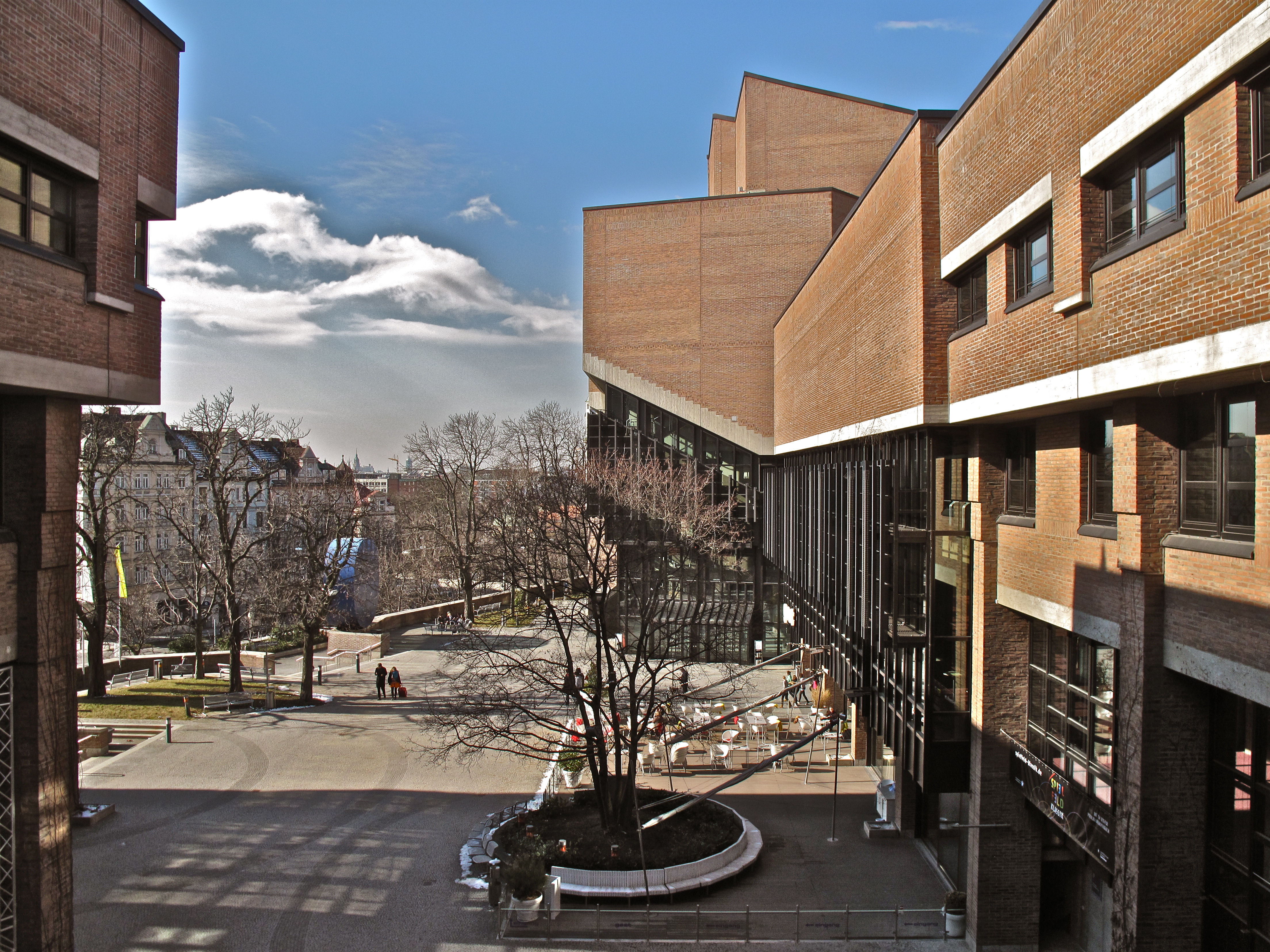 The Gasteig (cultural centre of the city of Munich) with the Celibidacheforum (place) and the Philharmonie in the background.